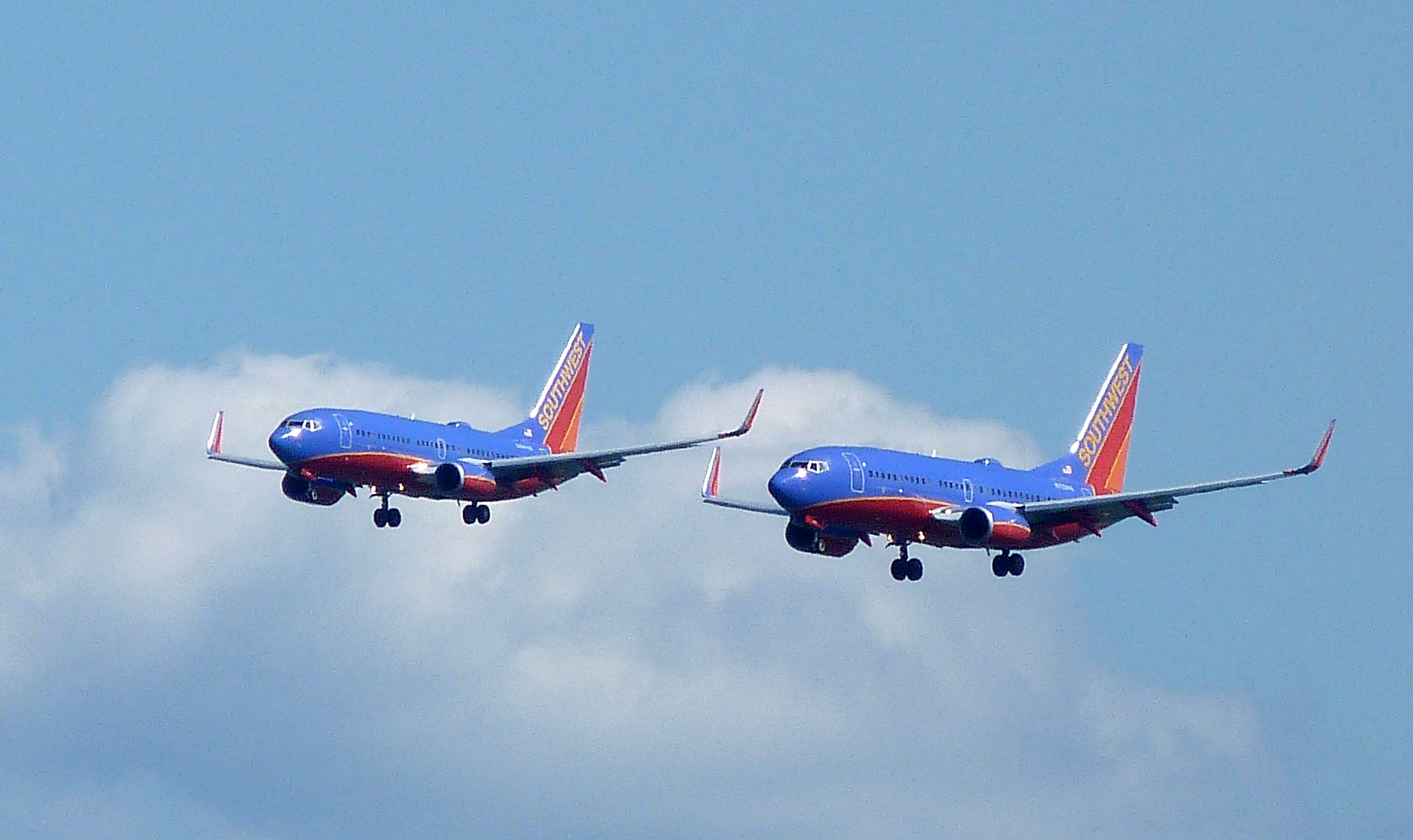 Two Southwest Airlines Boeing 737s on final approach at San Francisco International Airport